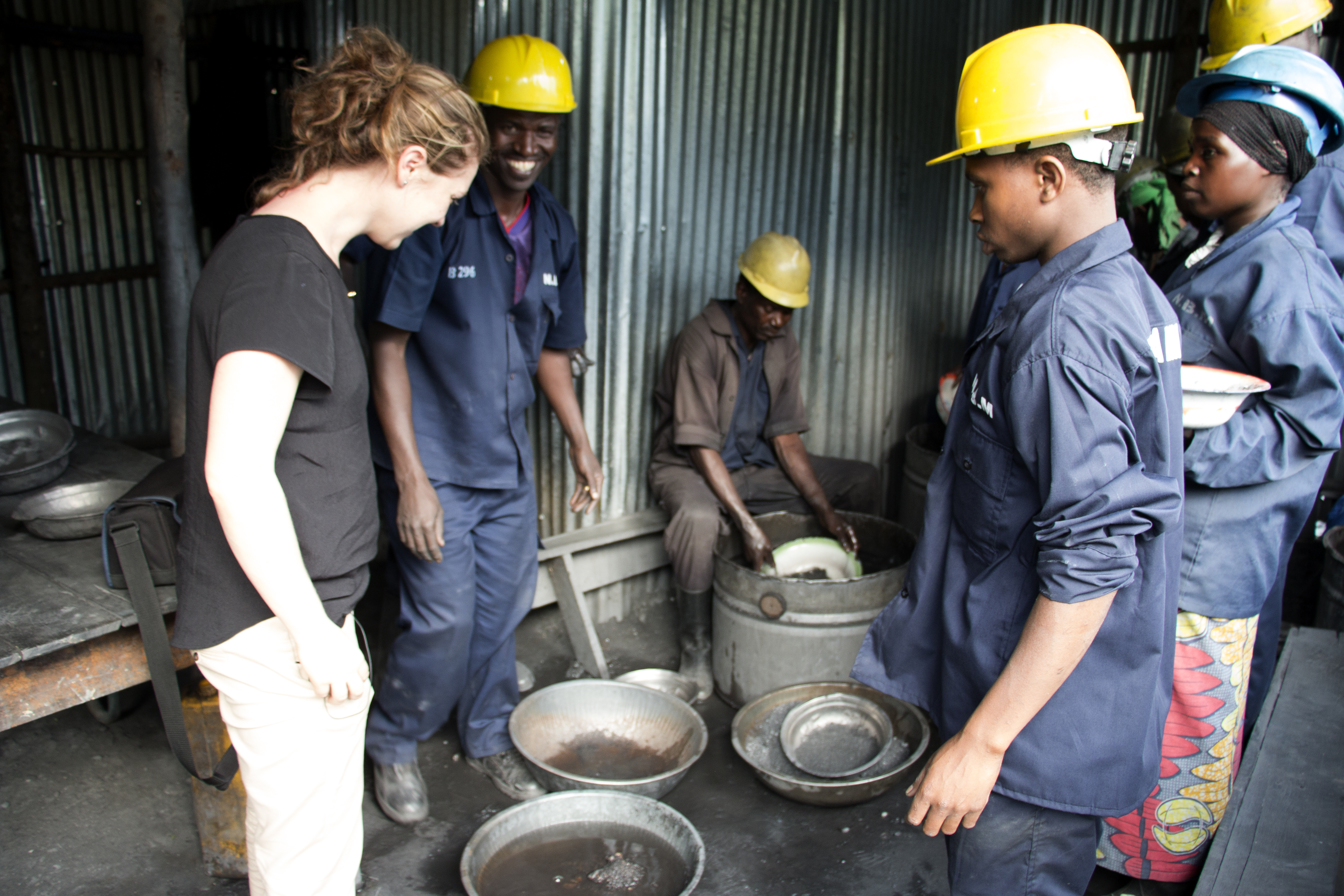 Learning the process